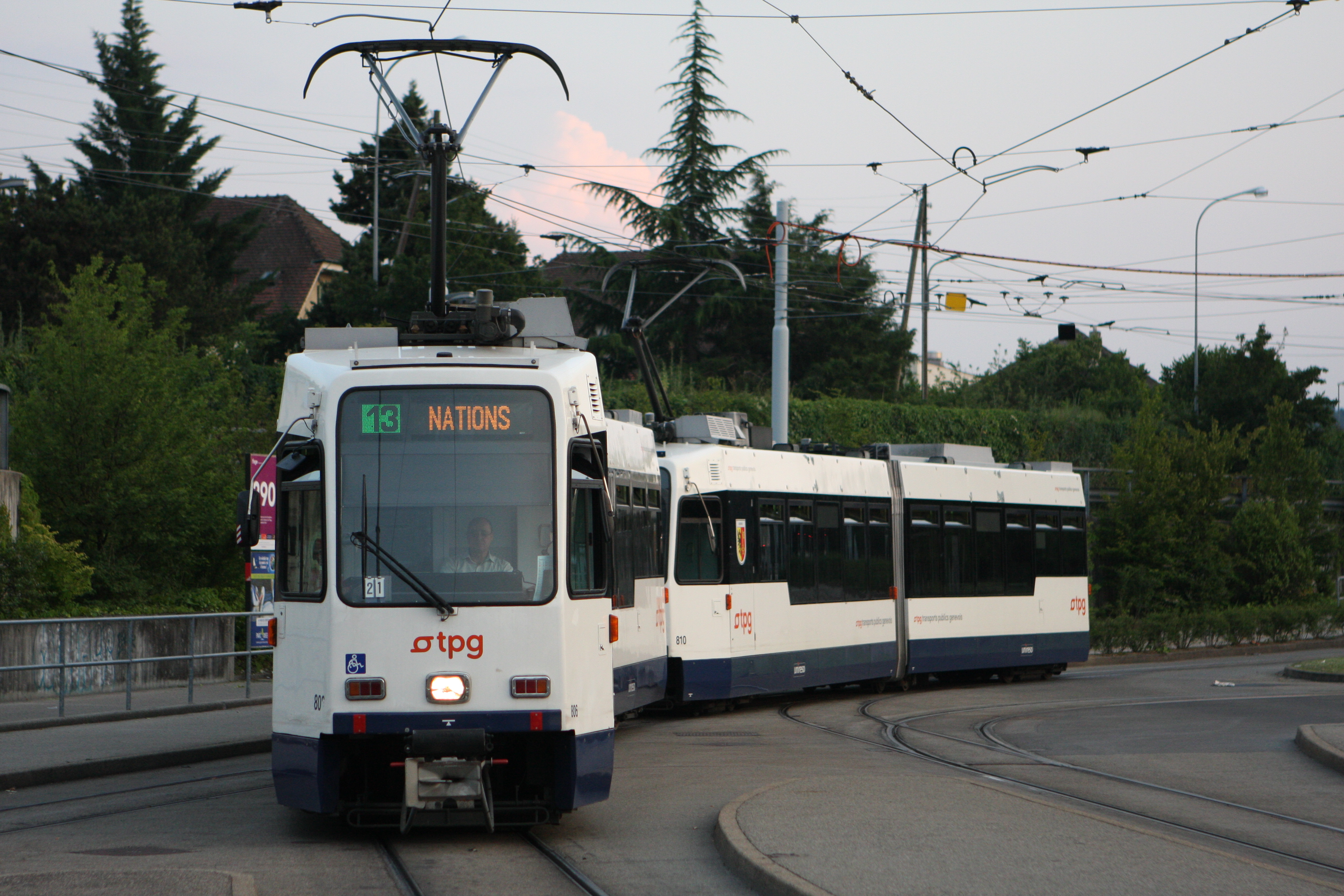 tram in geneva